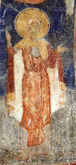 Icon of Nestor. St. Demetrius Church, Marko`s Monastery near Skoplje, Macedonia